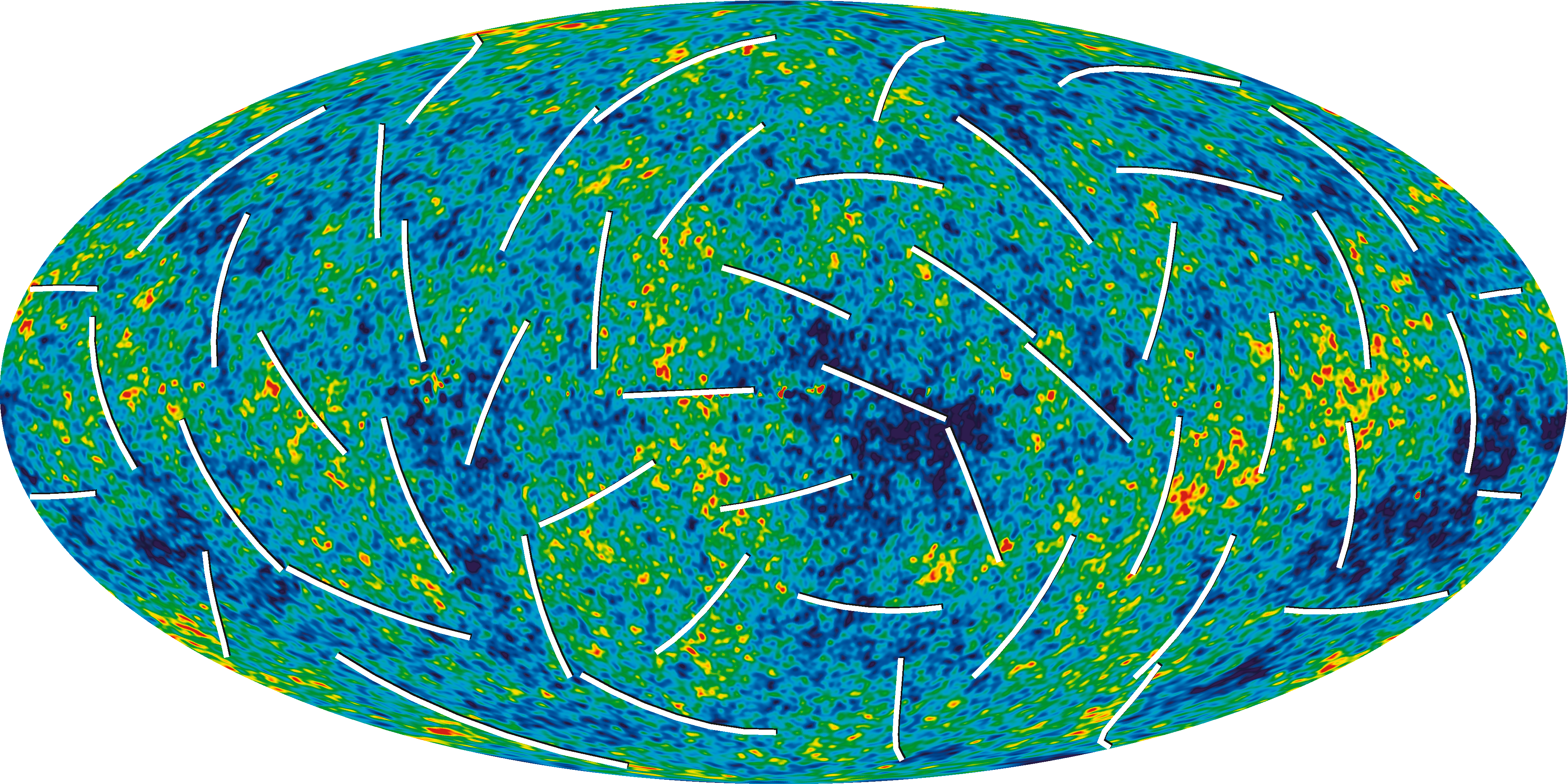 Polarization lines of the Microwave Sky